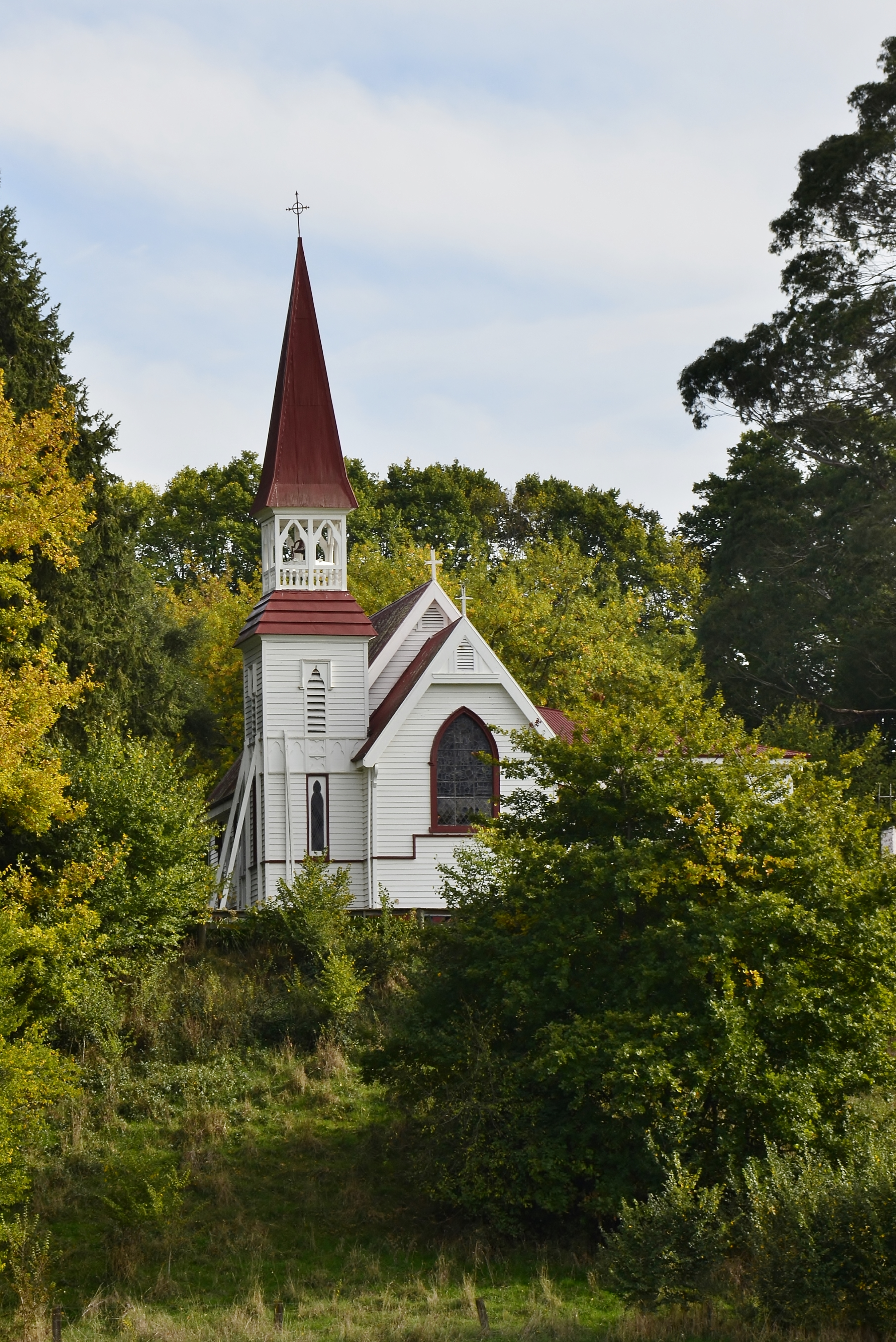 Te Aute College Chapel, Hawkes Bay